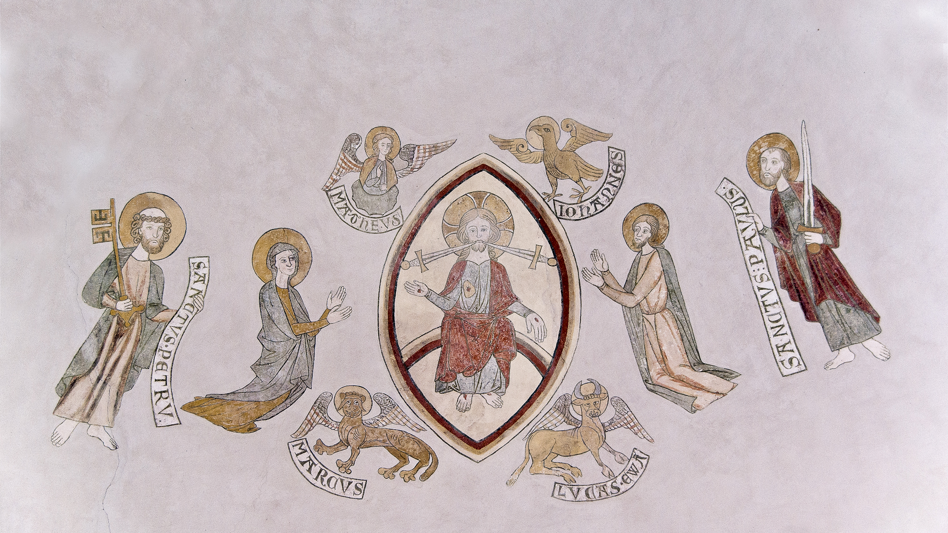 Church in Bernitt (ceiling painting - detail), disctrict Güstrow, Mecklenburg-Vorpommern, Germany